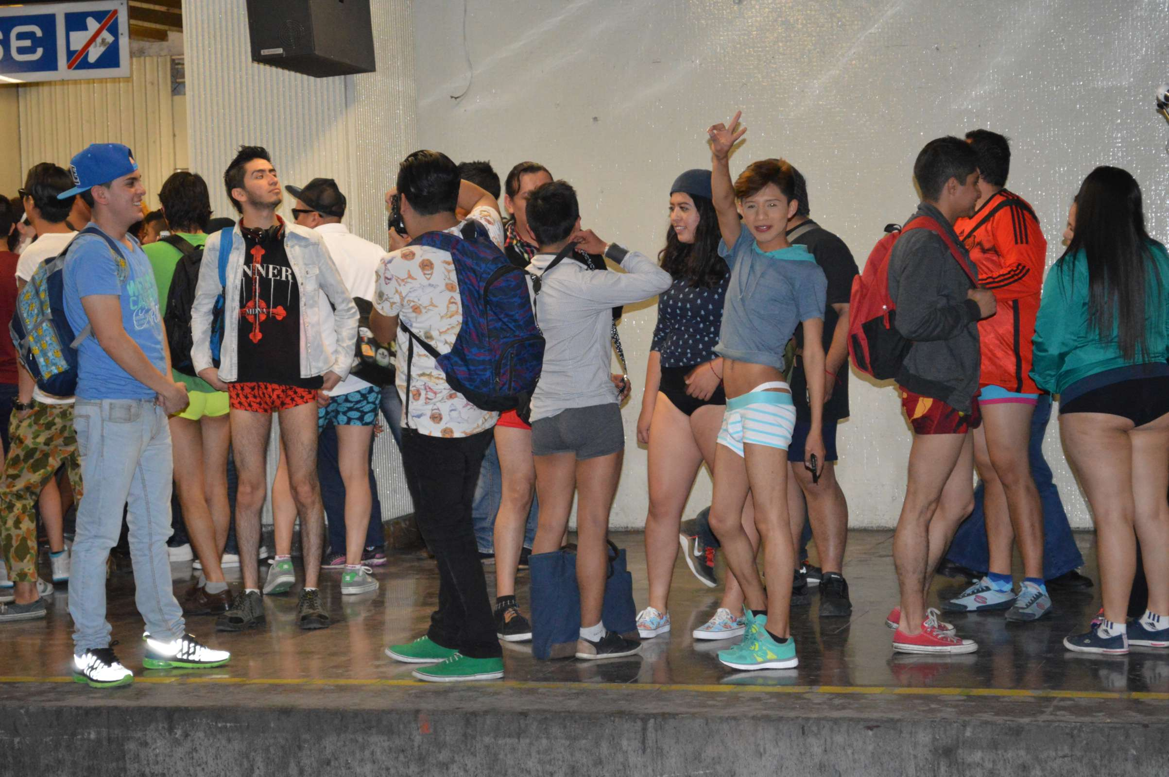 Participants in No Pants Subway Ride in Mexico City 2015